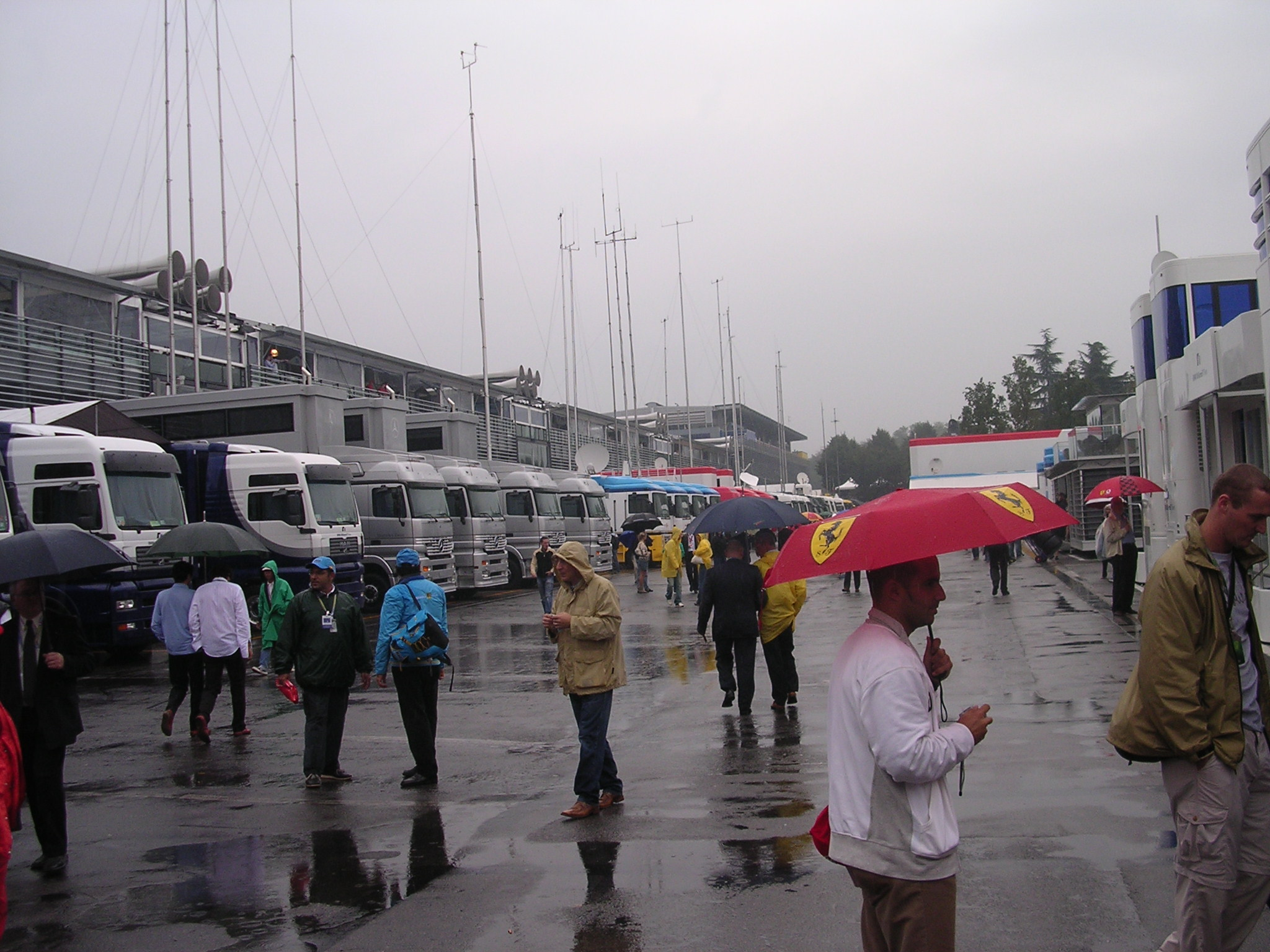 The Autrodomo Nazionale of Monza (italy) during a race in september 2004